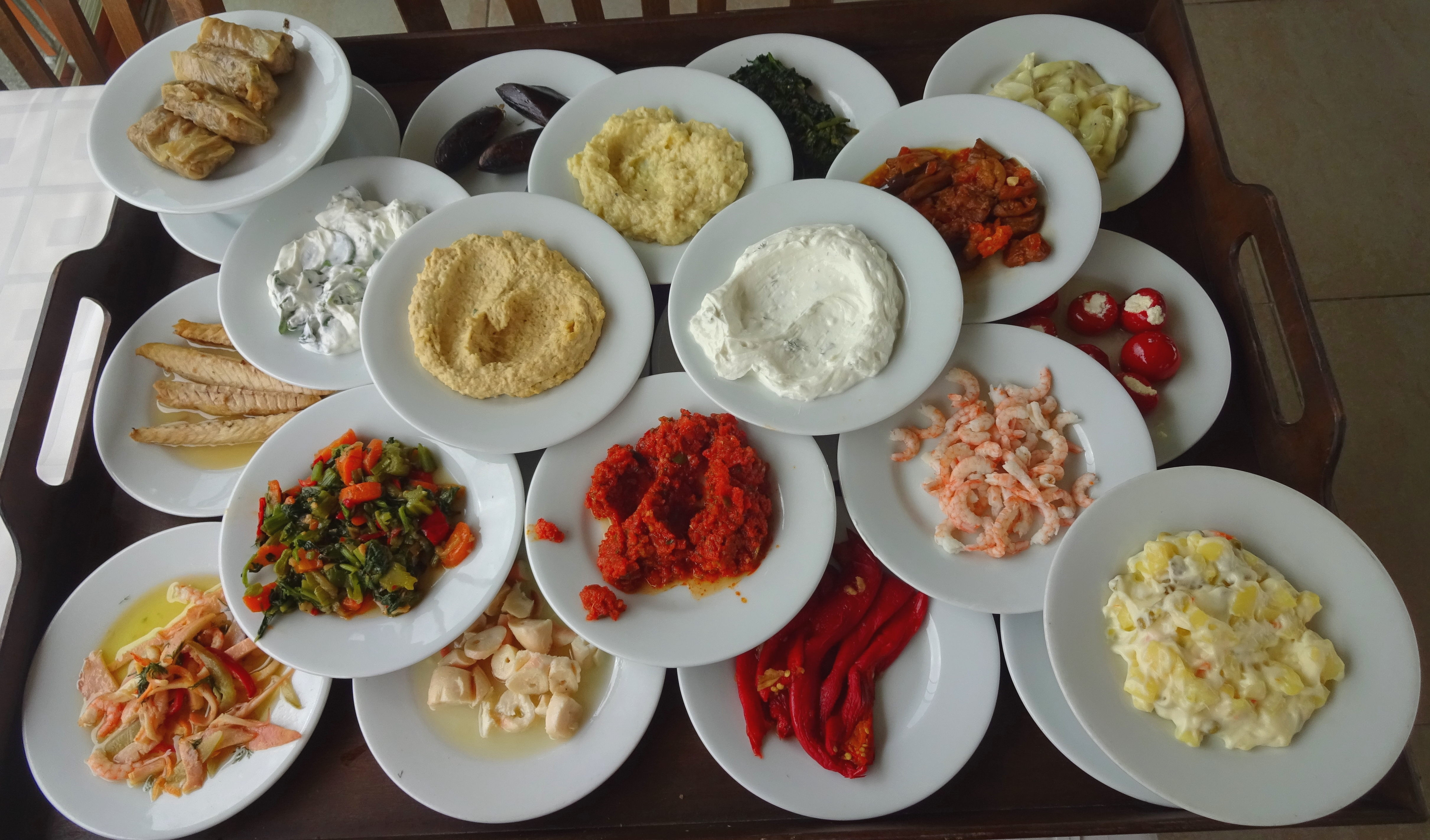 Tray of Turkish Meze starters for show. Photographed in the Lido Restaurant in Adalar on Büyükada island.